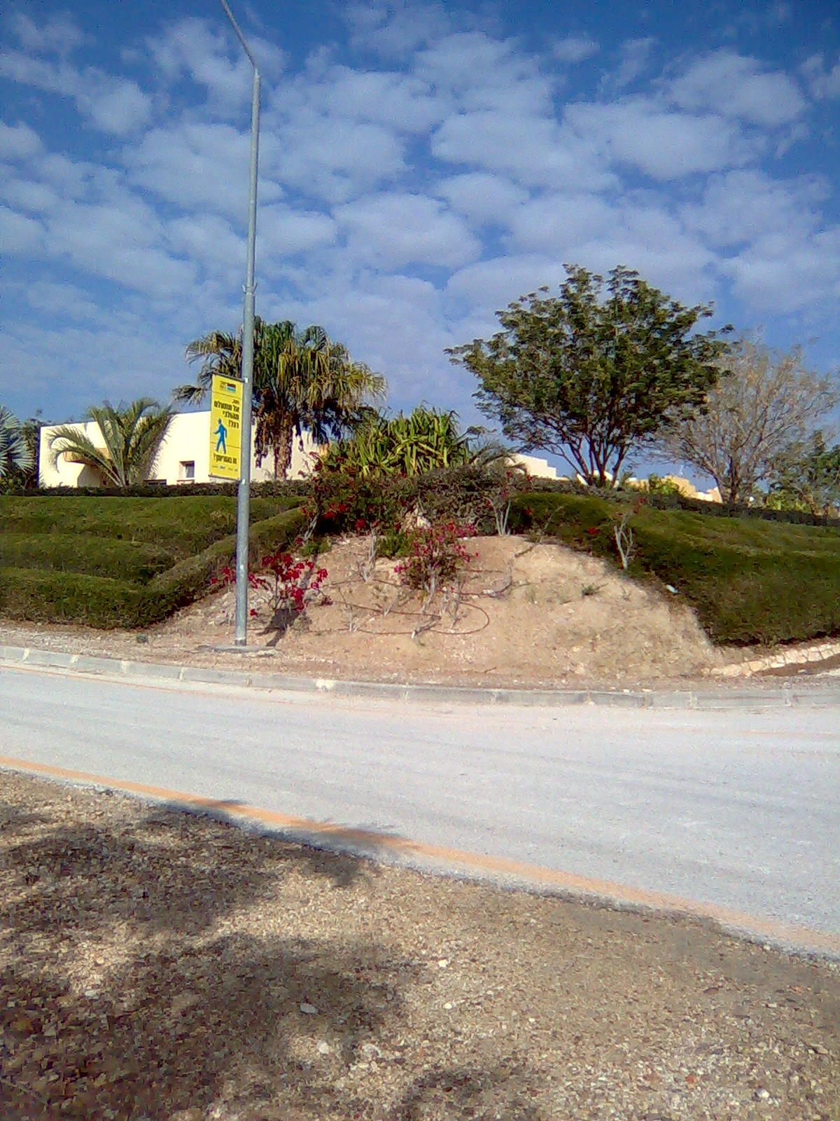 Bet Ha'Arava